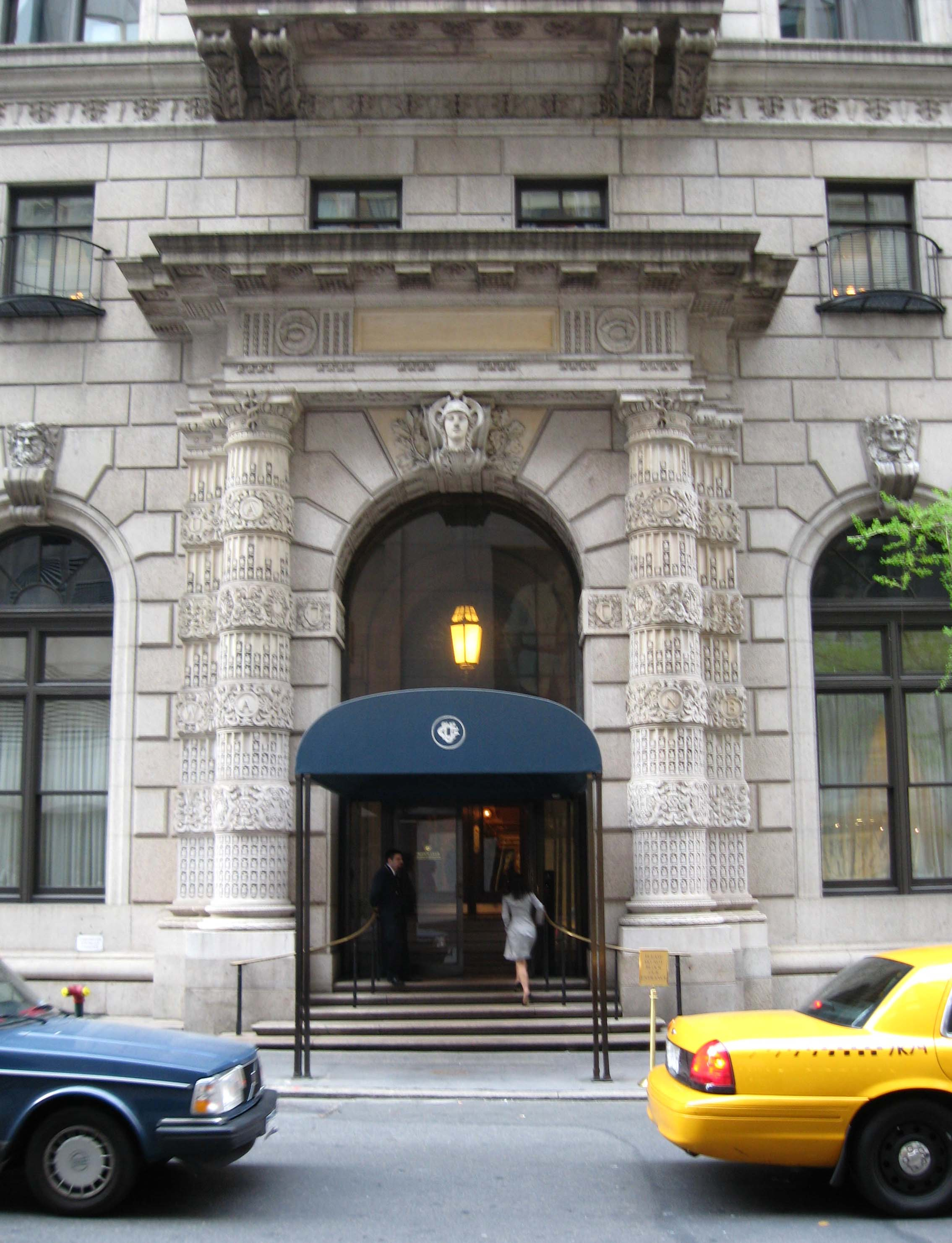 View of University Club of New York. Looking north across west 54th Street on on a sunny afternoon in springtime.